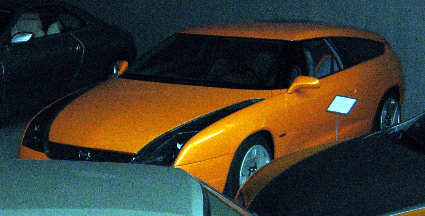 Opel Slalom from Bertone style center at Caprie (Susa Valley)